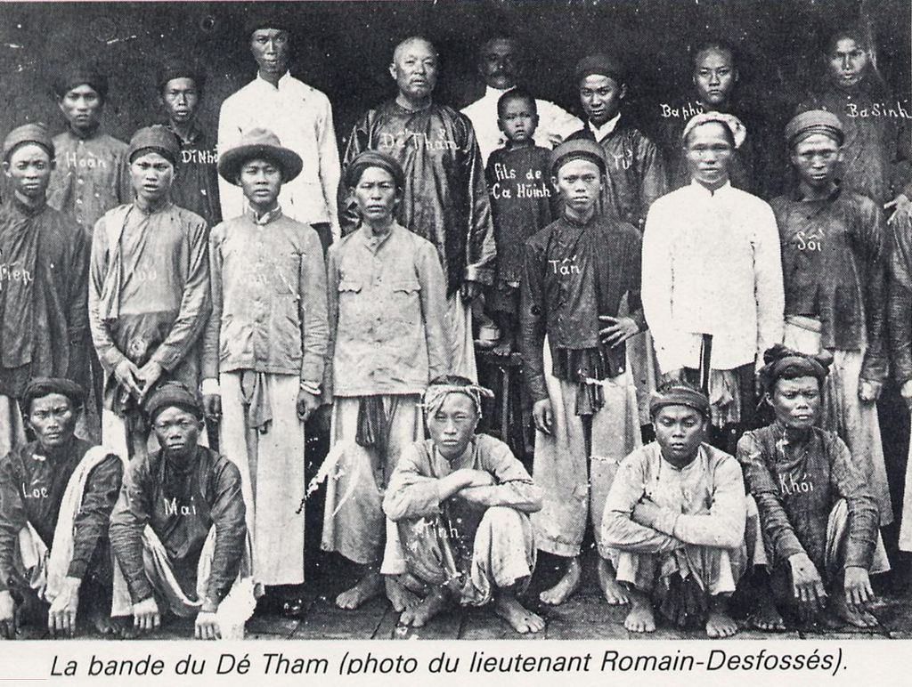 Yên Thế Insurrection Leaders